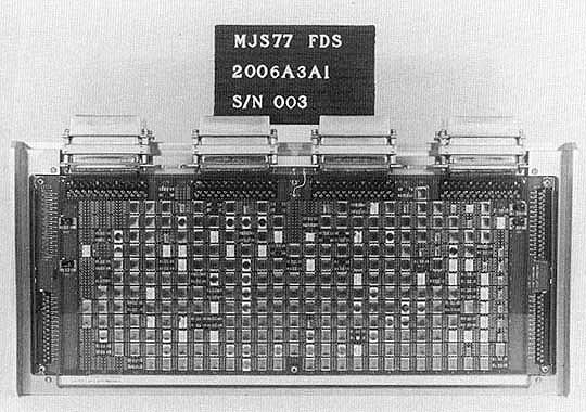 "Flight Data Subsystem" of the Voyager spacecraft